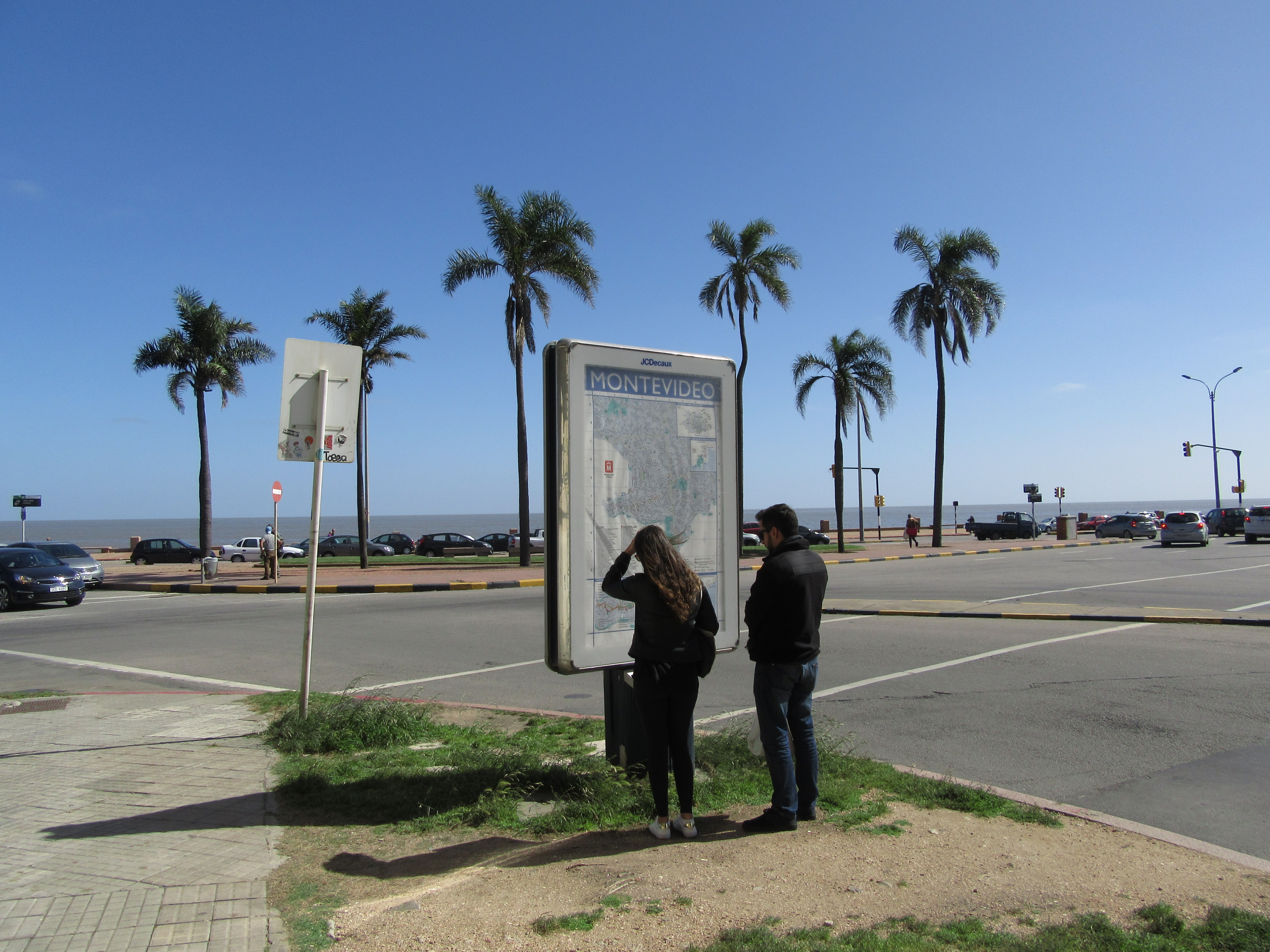 Montevideo